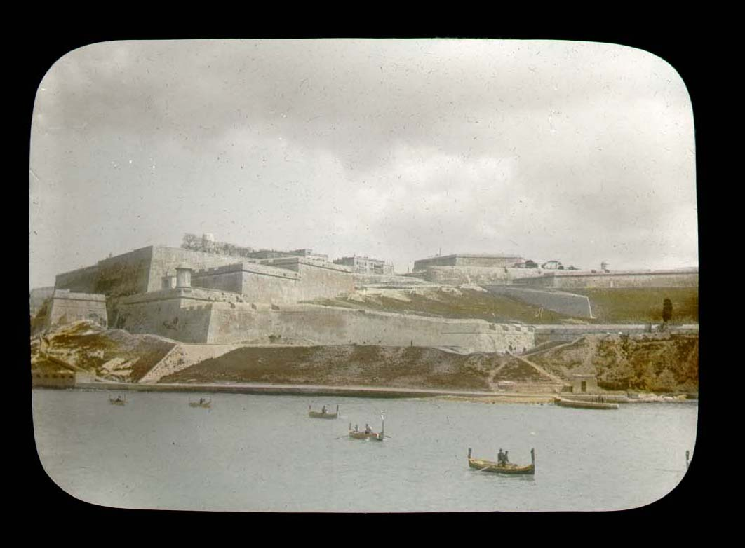 Malta with gondolas on water. 1896. Name of Expedition: Africa Expedition Participants: D.G. Elliot and Carl Akeley Expedition Date: 1896 Purpose or Aims: Zoology Mammals Location: Europe, Malta Original material: Hand-colored glass lantern slide Digital Identifier: CSZ5984_LS Learn more about The Field Museum's Library Photo Archives.